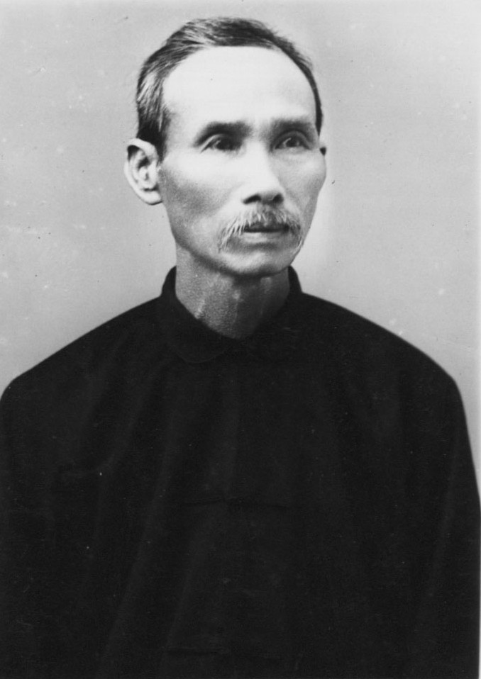 Chun Afong (1825-1906), Chinese Hawaiian businessman and politician. He came to Hawaii in 1849 and became Hawaii's first Chinsese millionaire.